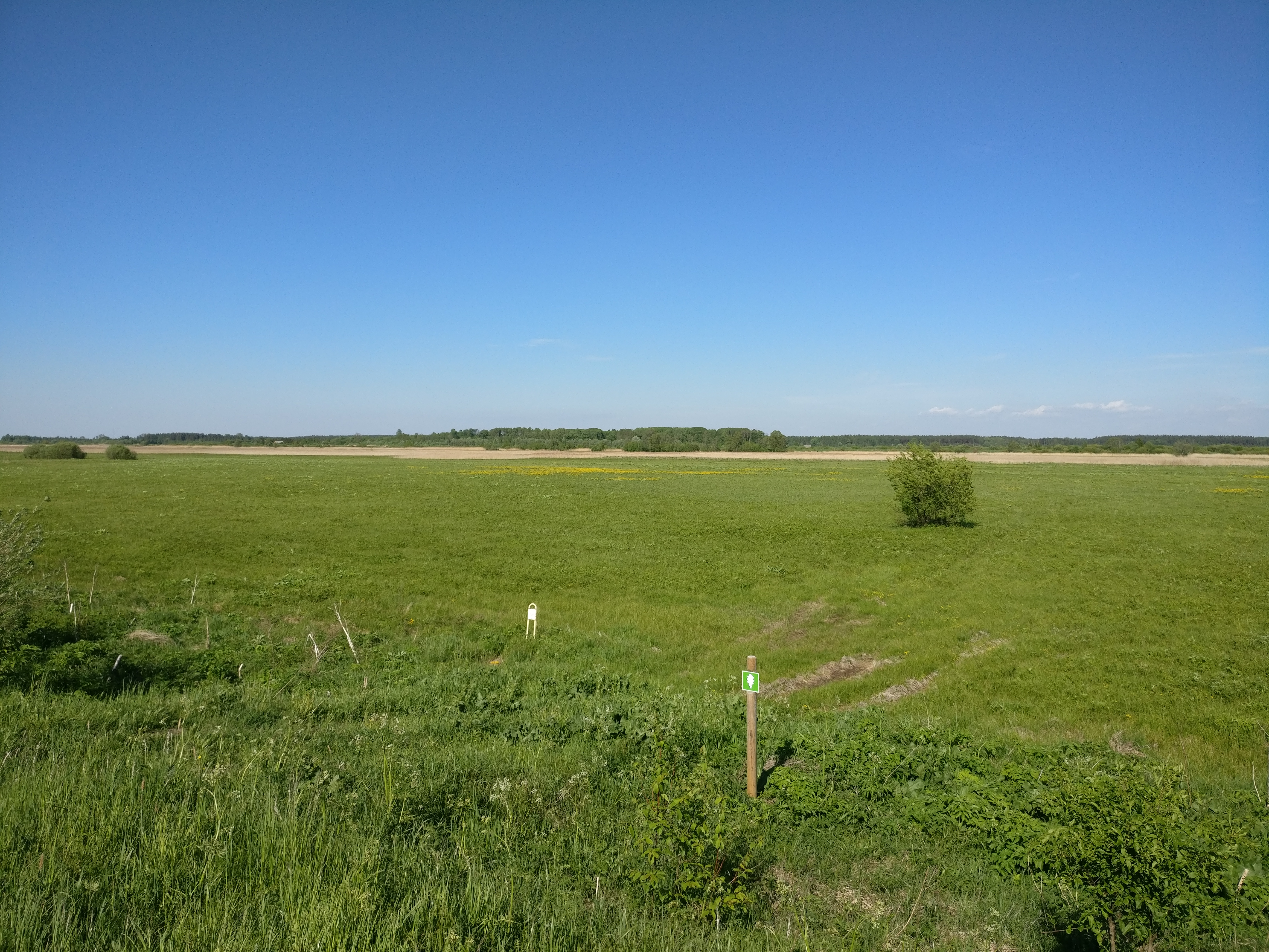 Kalnciems Meadow (Nature Reserve)